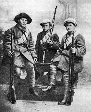 1918 Finnish Civil War: Members of the Lappeenranta Female Red Guard.